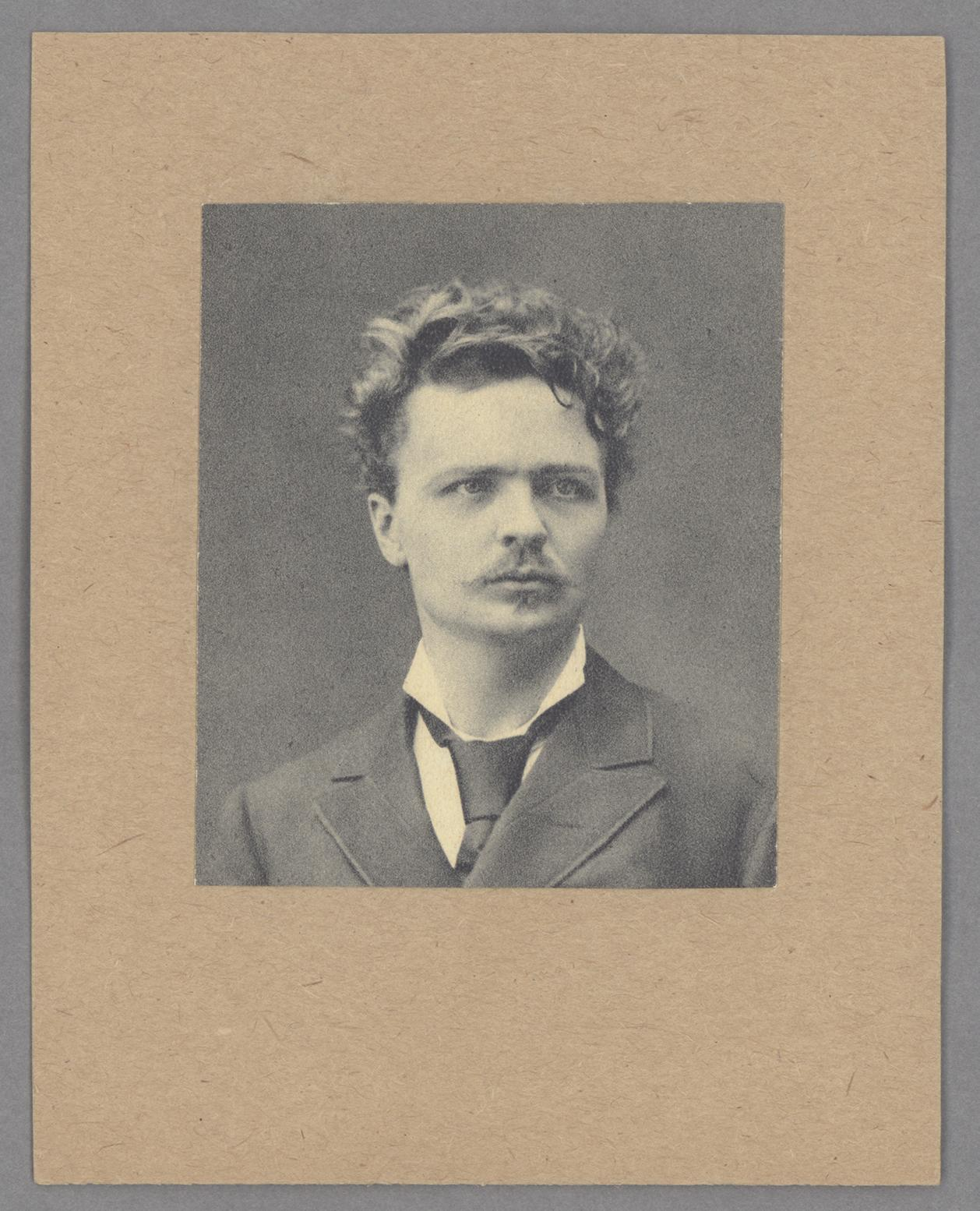 Swedish author August Strindberg. Date: 1881 Photographer: Robert Roesler, Stockholm Part Of: National Library of Sweden, Collection of Manuscripts, Strindbergsrummet